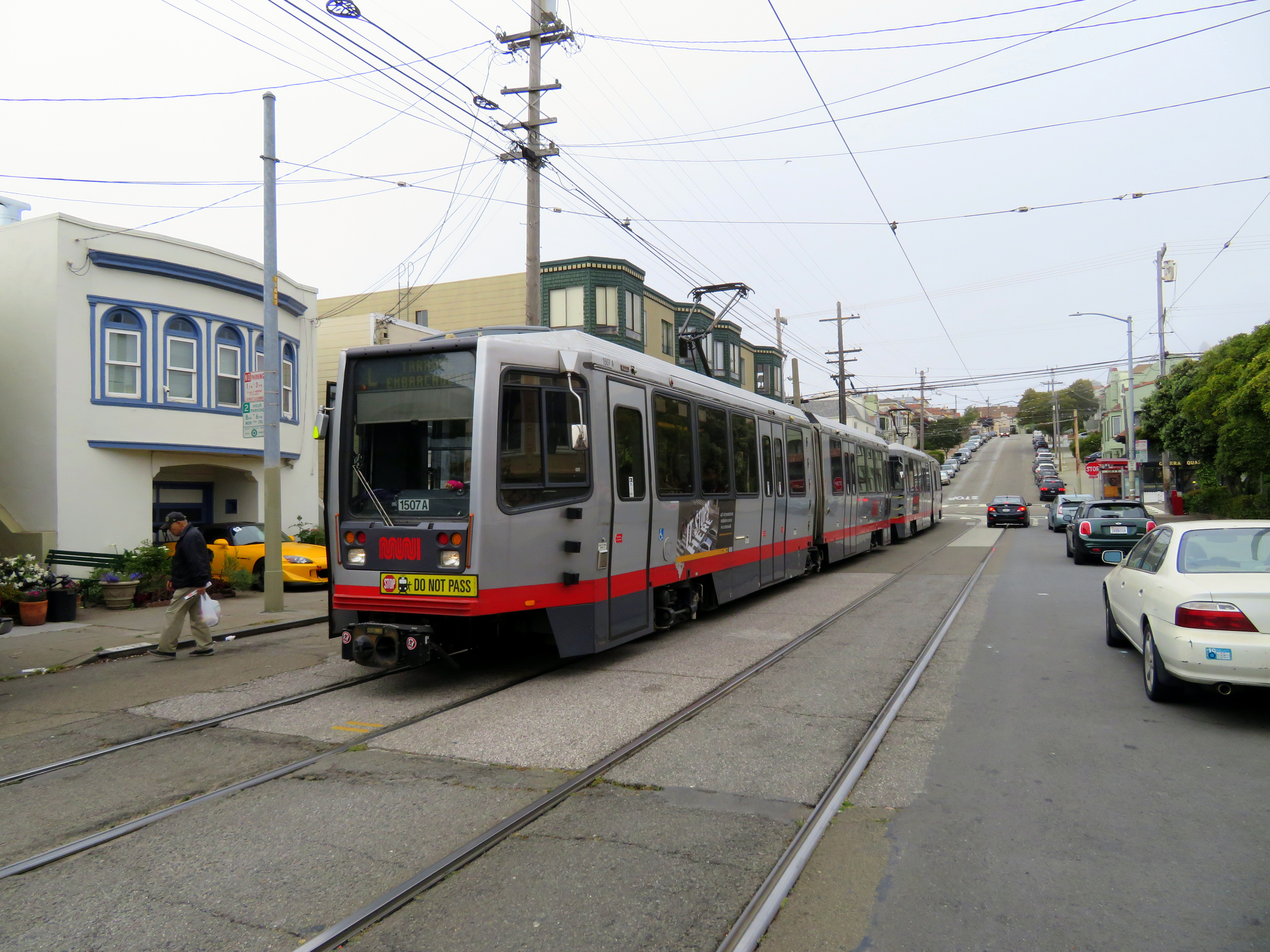 Inbound train at 15th Avenue and Taraval in May 2018